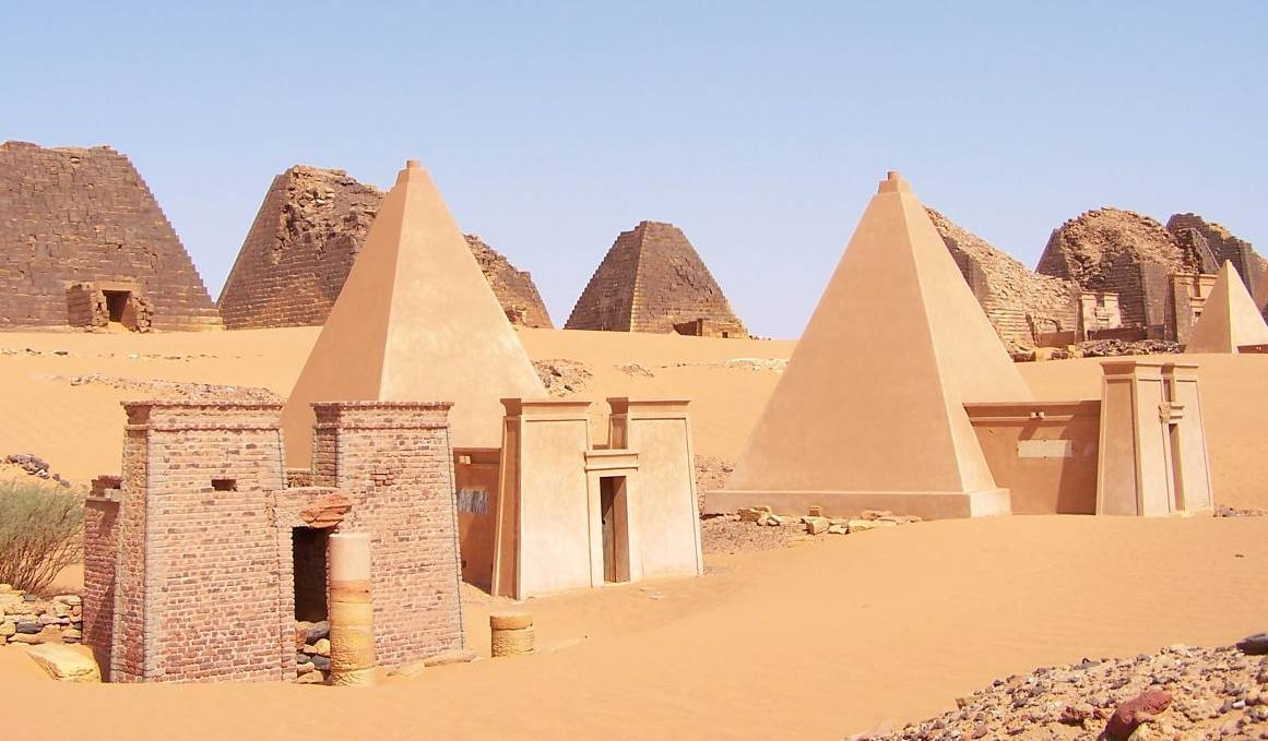 Pyramids of Meroe in Sudan. In the front from left to right are the pyramids N25, N26 and N27.